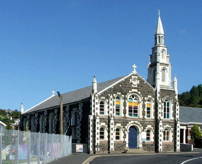 Caversham Presbyterian Church, Caversham. Photograph by James Dignan (User:Grutness), March 15, 2009. NZHPT Historic Place - Category I, Register Number: 7319